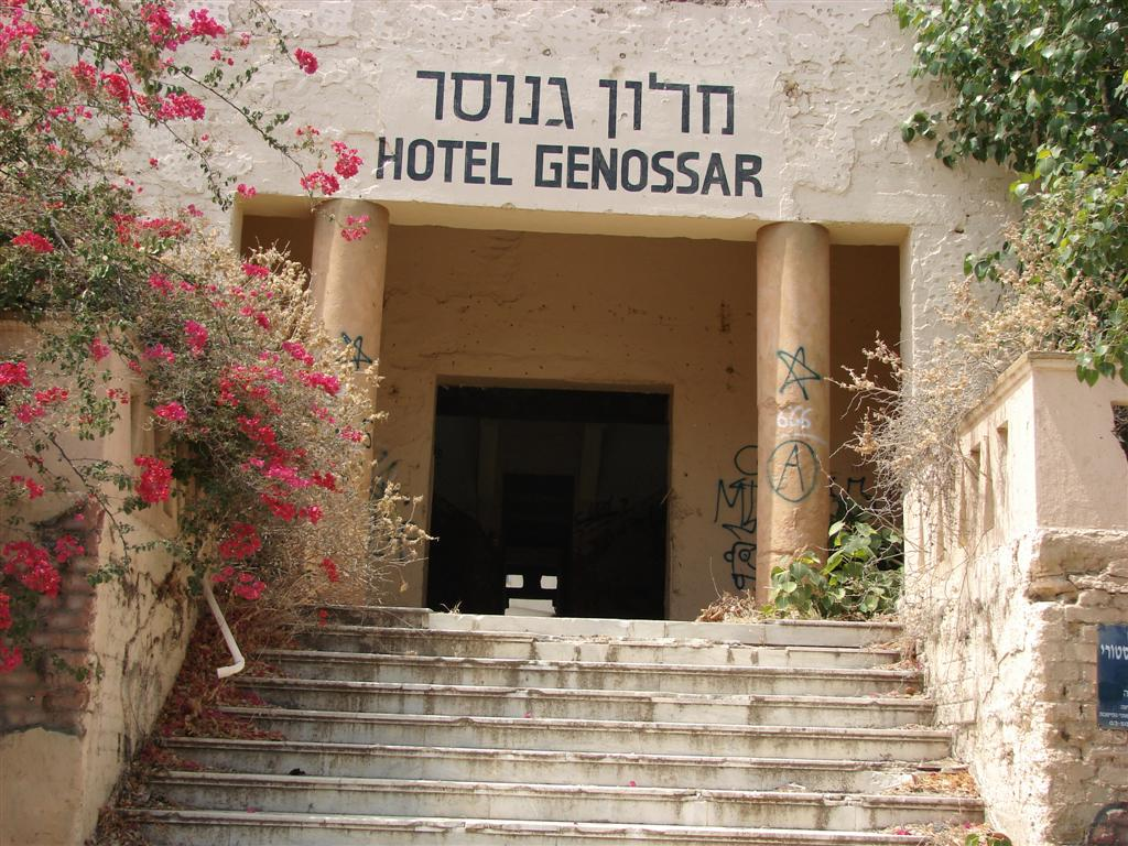 Hotel Genossar